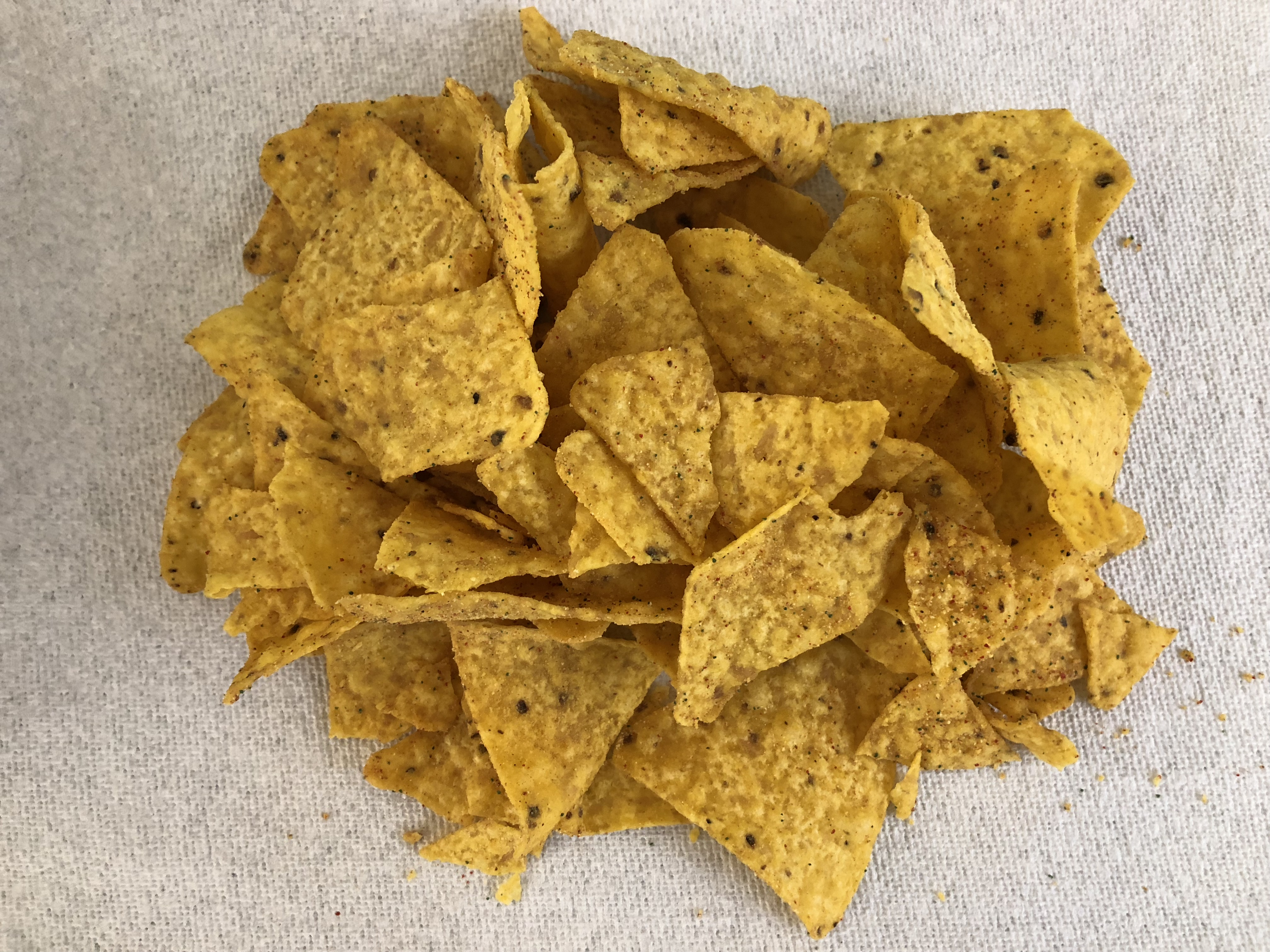 Cool Ranch Doritos in the Franklin Farm section of Oak Hill, Fairfax County, Virginia